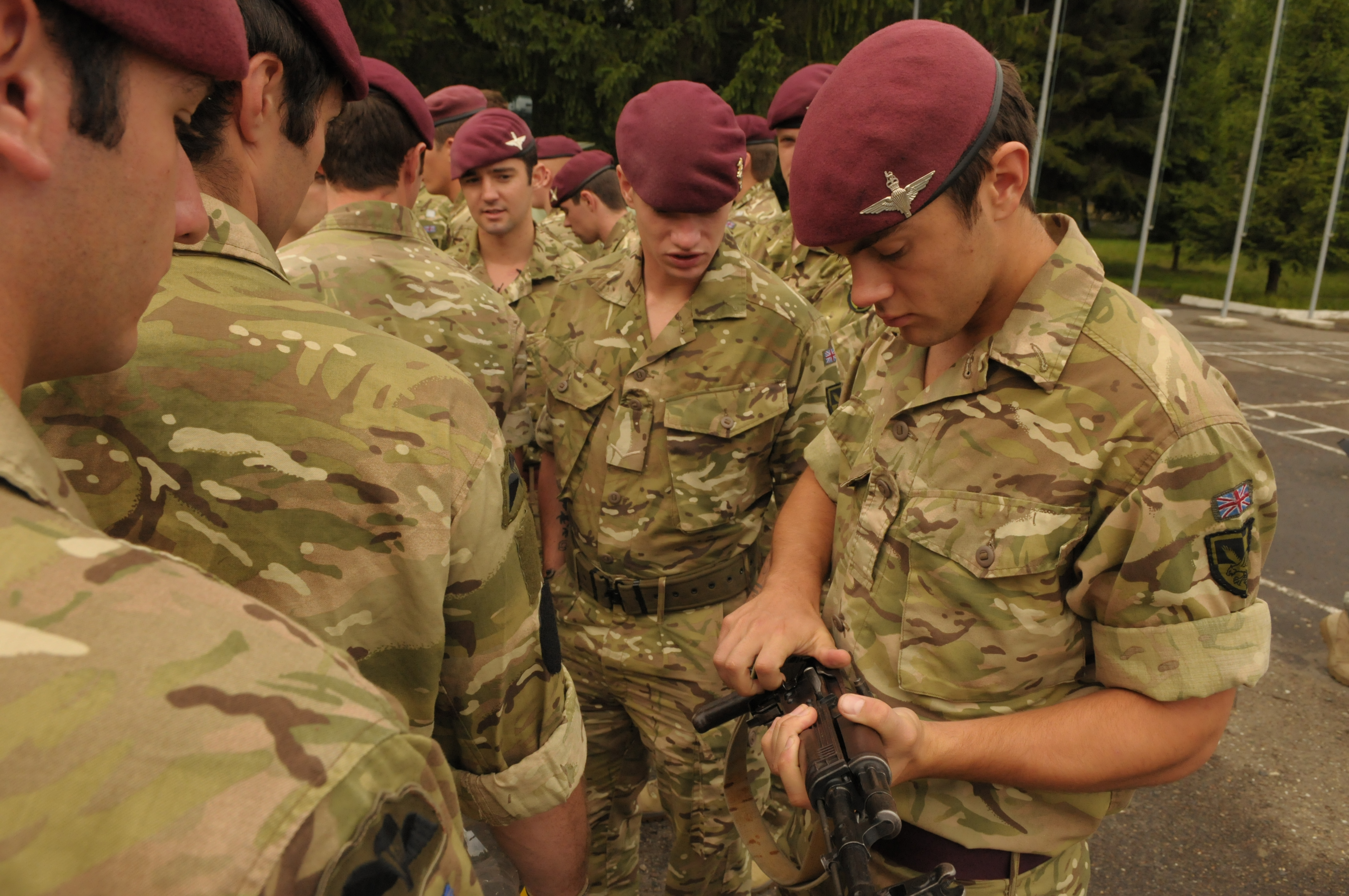 Yavoriv, Ukraine (July 24, 2011)--Paratroopers from the United Kingdom train on Ukrainian weapons as part of Rapid Trident 2011. Rapid Trident is a multi-national airborne operation and field training exercise (FTX) in support of Ukraine’s Annual Program to achieve interoperability with NATO. (U.S. Army photo by Staff Sgt. Brendan Stephens/Released)